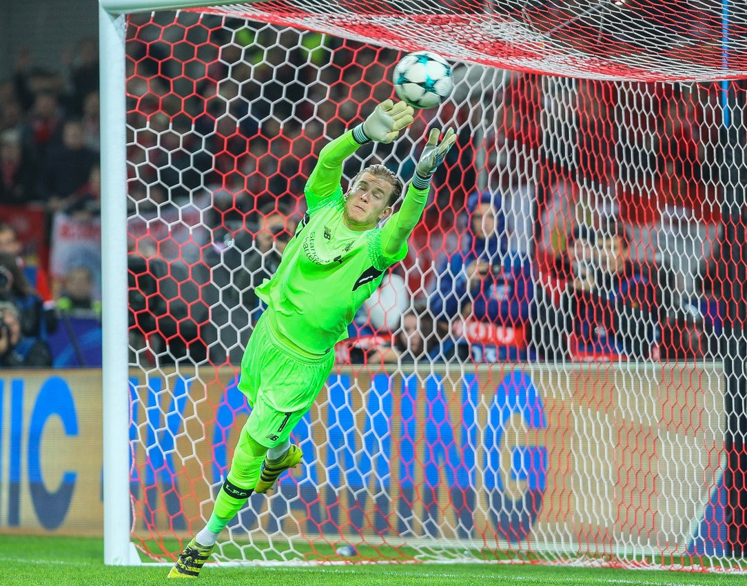 Loris Karius